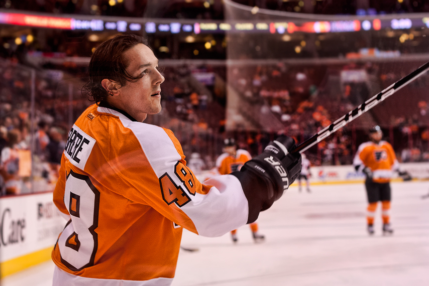 Danny Brière during pre-game warmup at the 1.7.12 game vs. the Ottawa Senators.